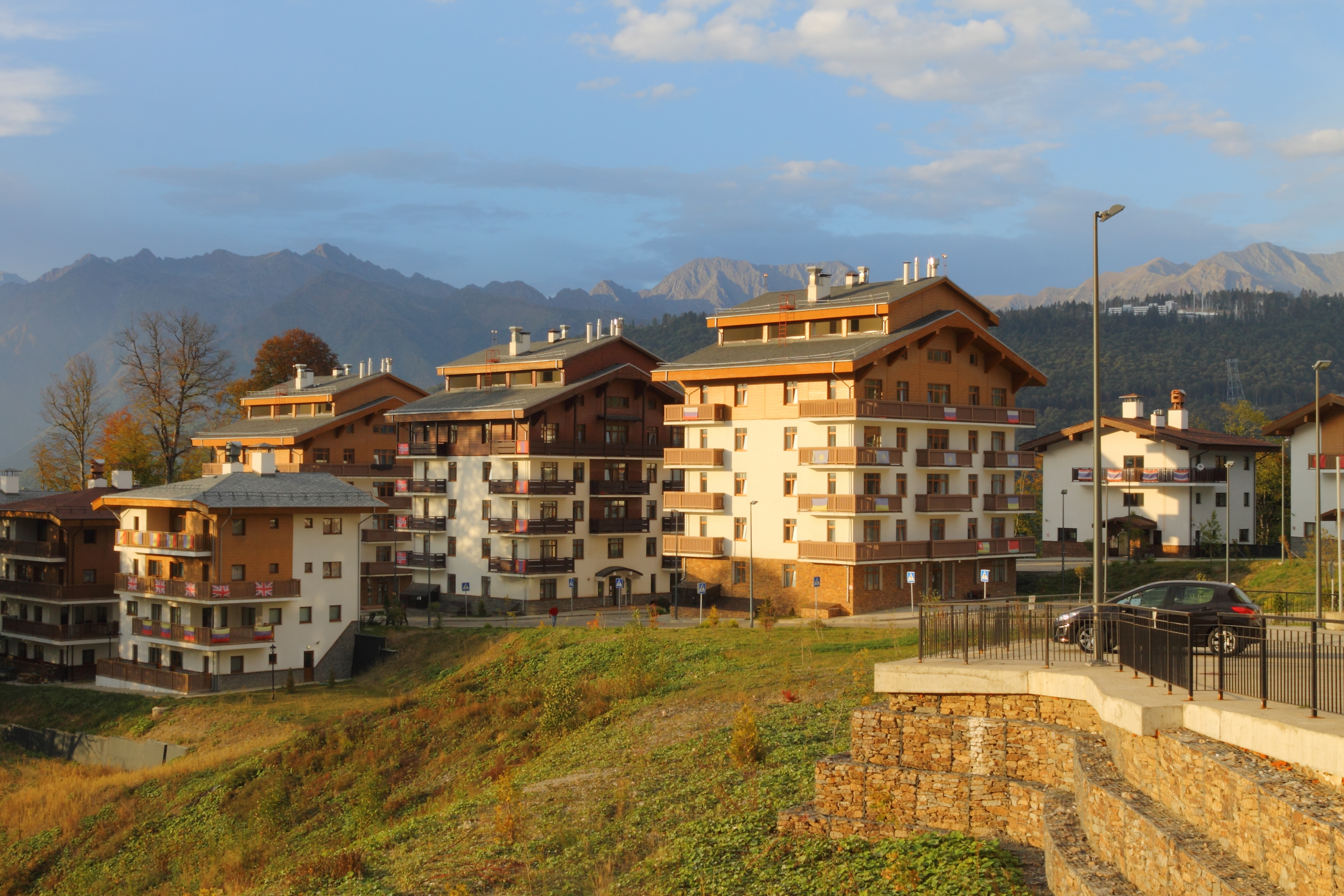 The former Mountain Olympic village in Rosa Khutor Alpine Resort. Vicinity of Krasnaya Polyana, Sochi.